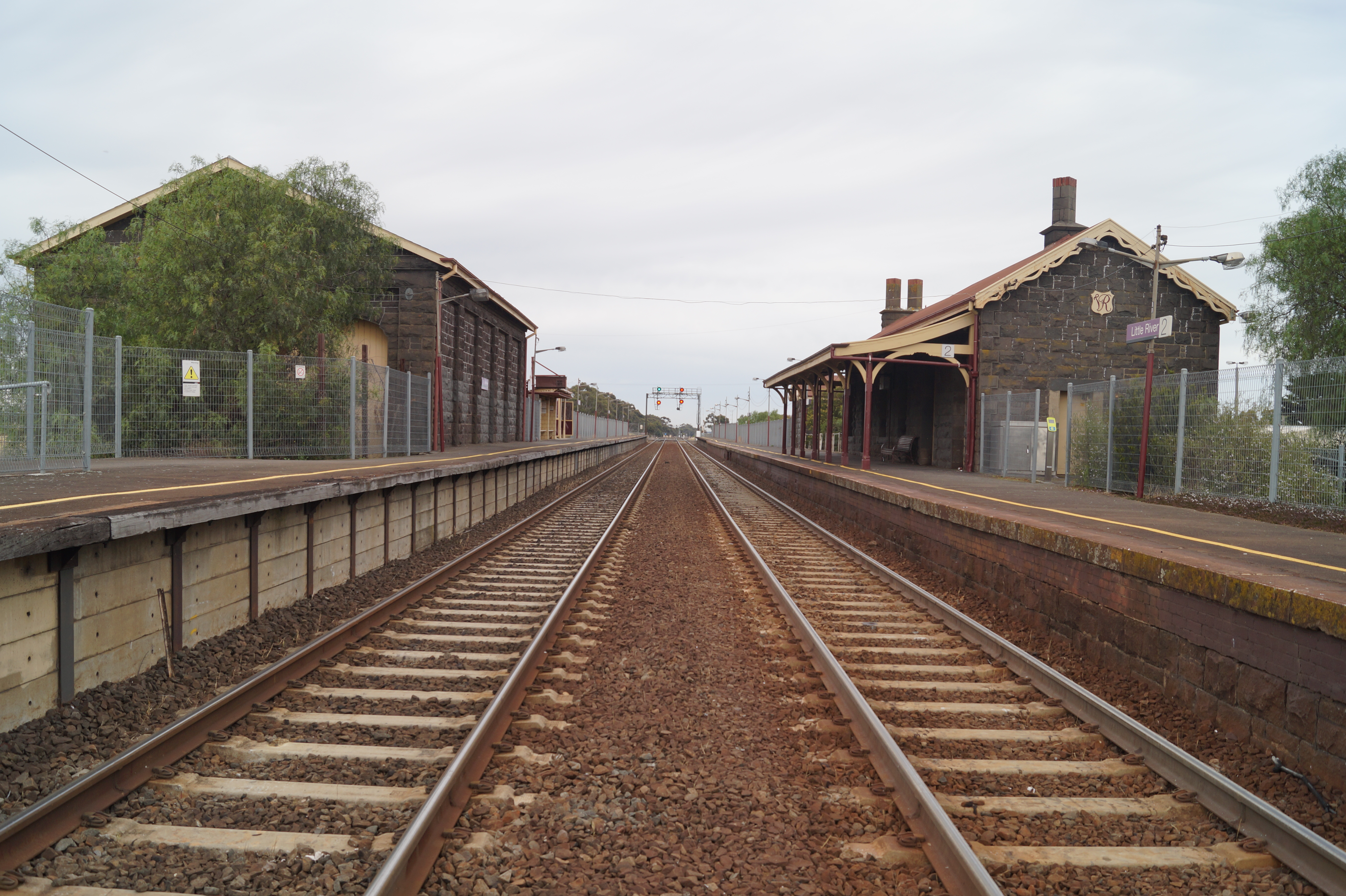 Little River Railway Station.